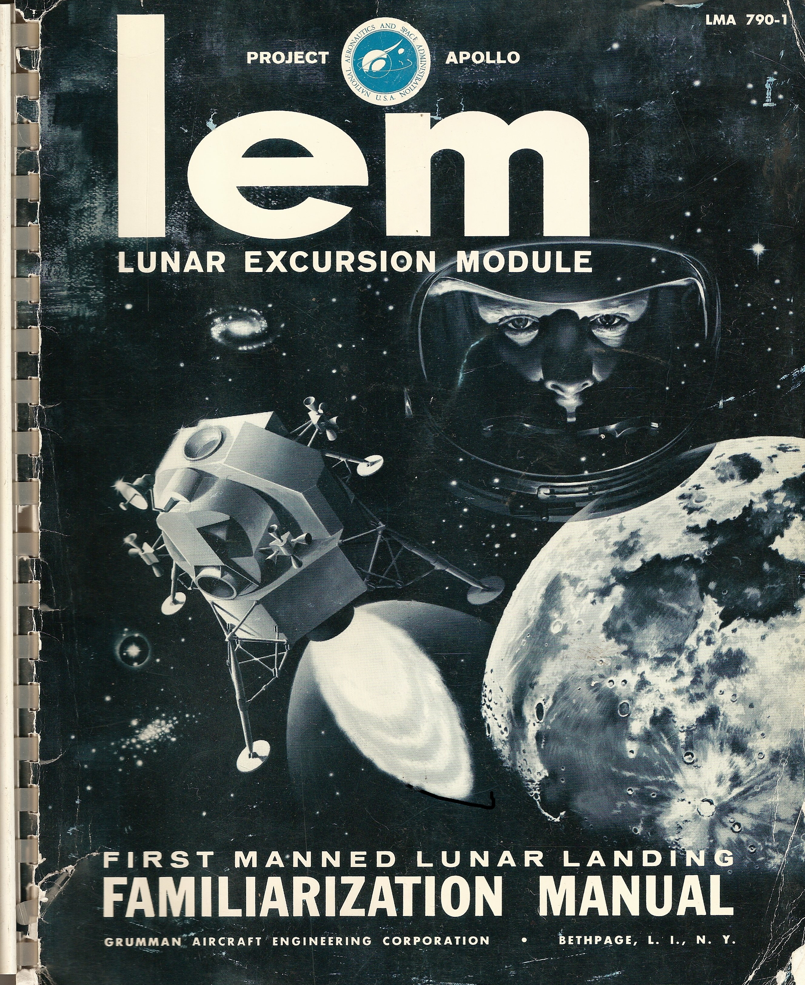 Front cover of Lunar Excursion Module Familiarization Manual from 15 January 1964. It was produced by "Grumman Aircraft Engineering Corporation" as NAS 9-1100 and it was marked LMA 790-1. I personally scanned in the cover as left and right halves and stitched them together with some imaging software. I have never seen another one like it.